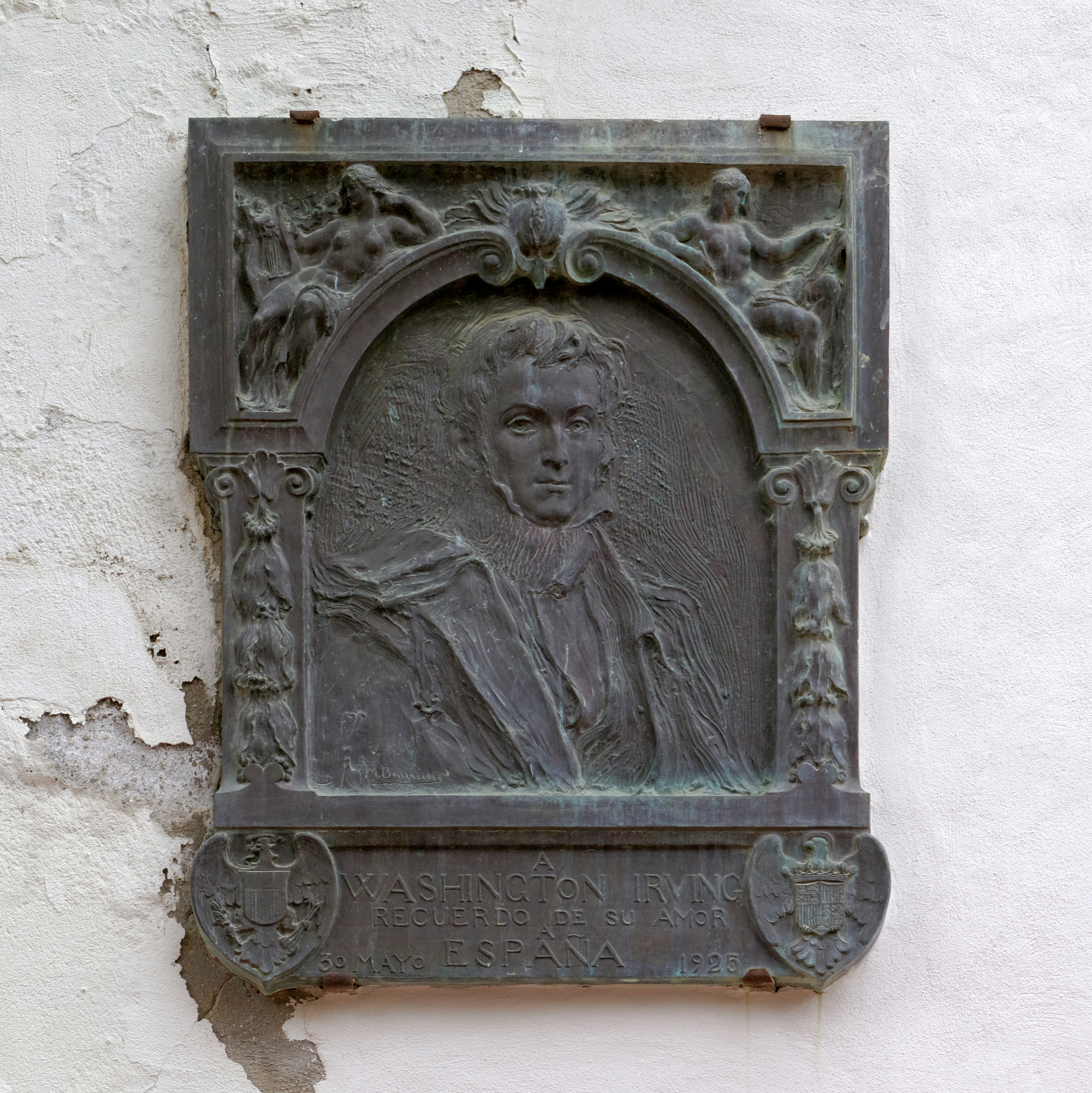 Spain, Seville, Washington Irving Memorial Plaque